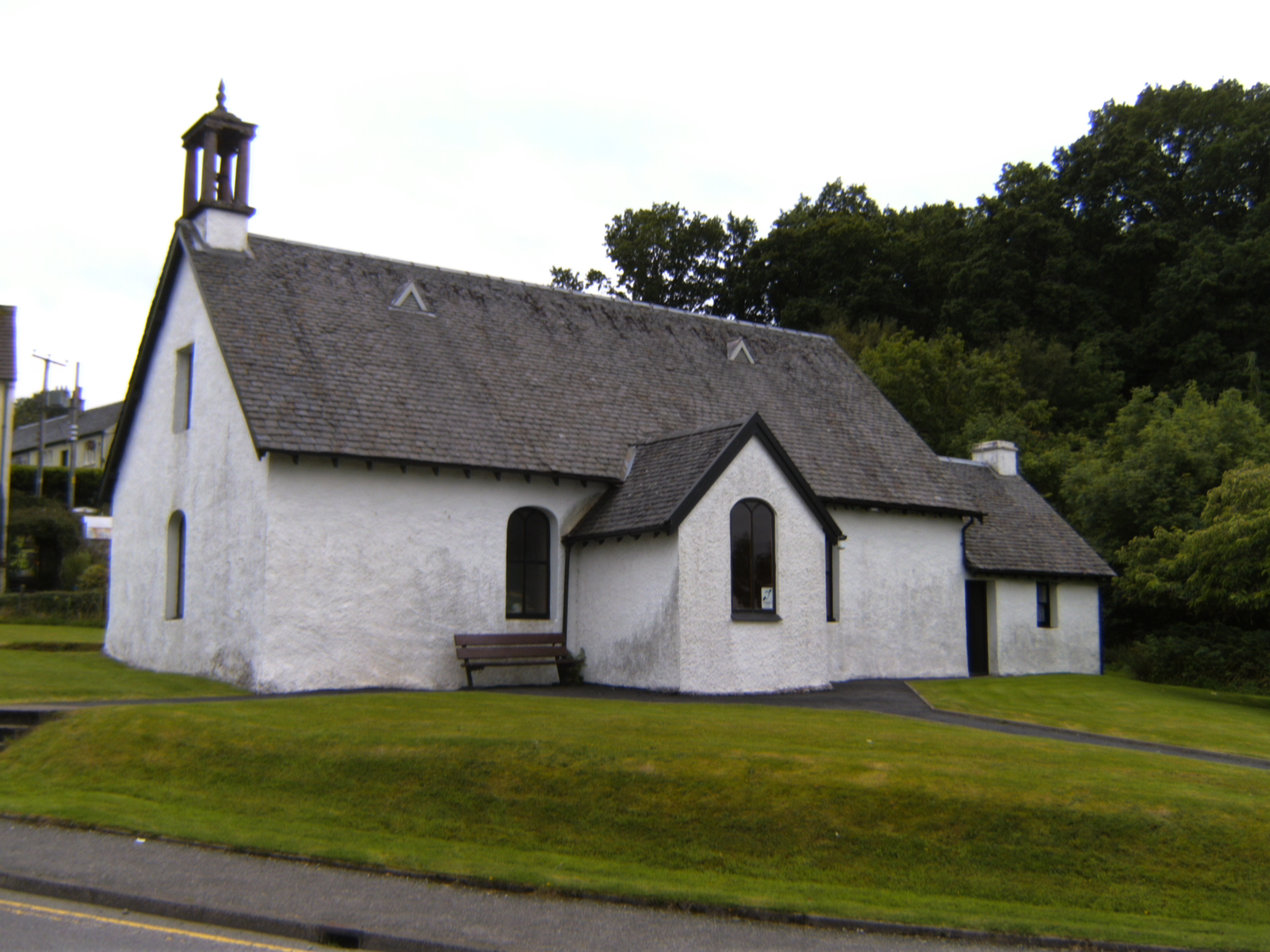 Torosay and Kinlochspelve Parish Church in Craignure, Isle of Mull